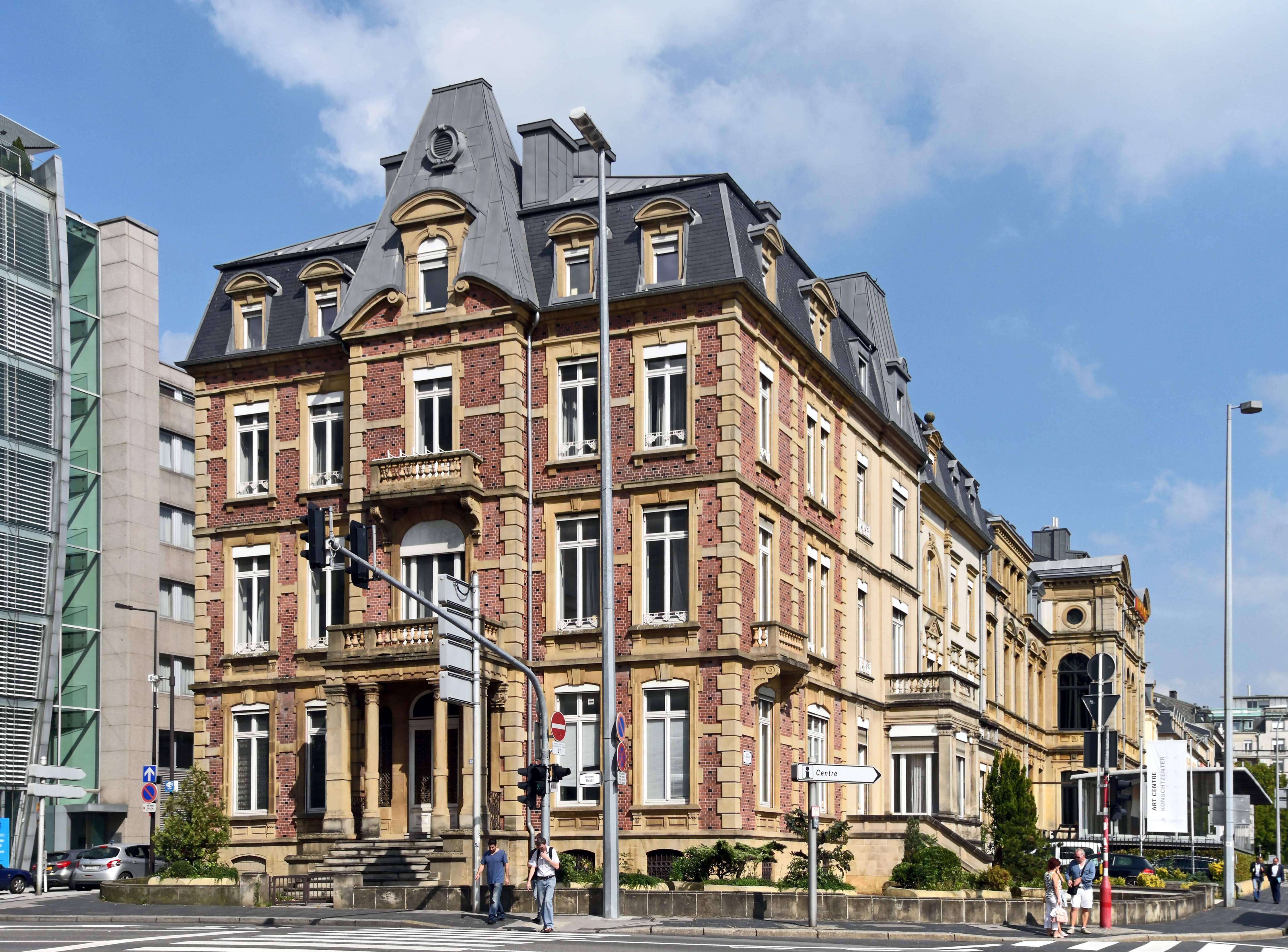 Servais House in Luxembourg City, boulevard Royal. The house was built in 1893. At right: boulevard F.D. Roosevelt.